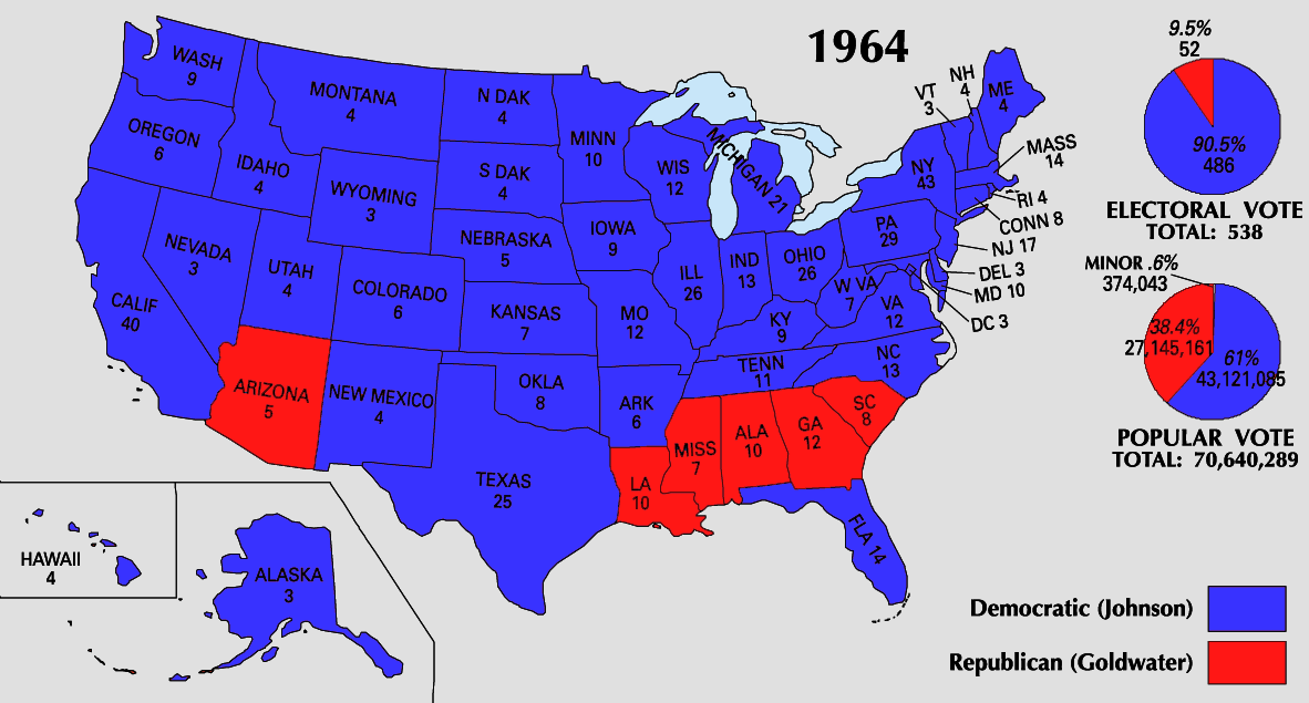 1964 Electoral College Map